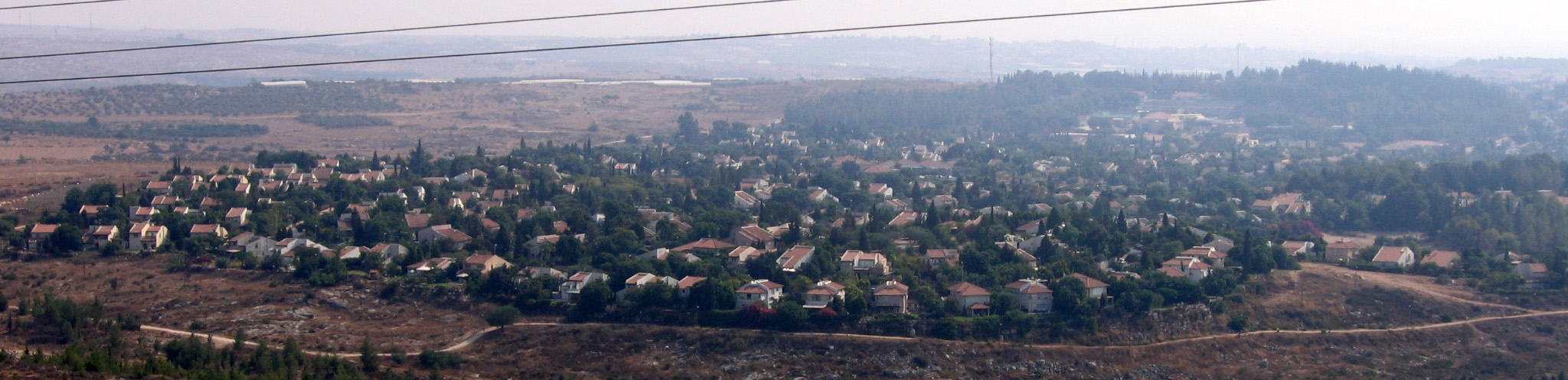 Kokhav Ya'ir, as seen from Tzur Natan.